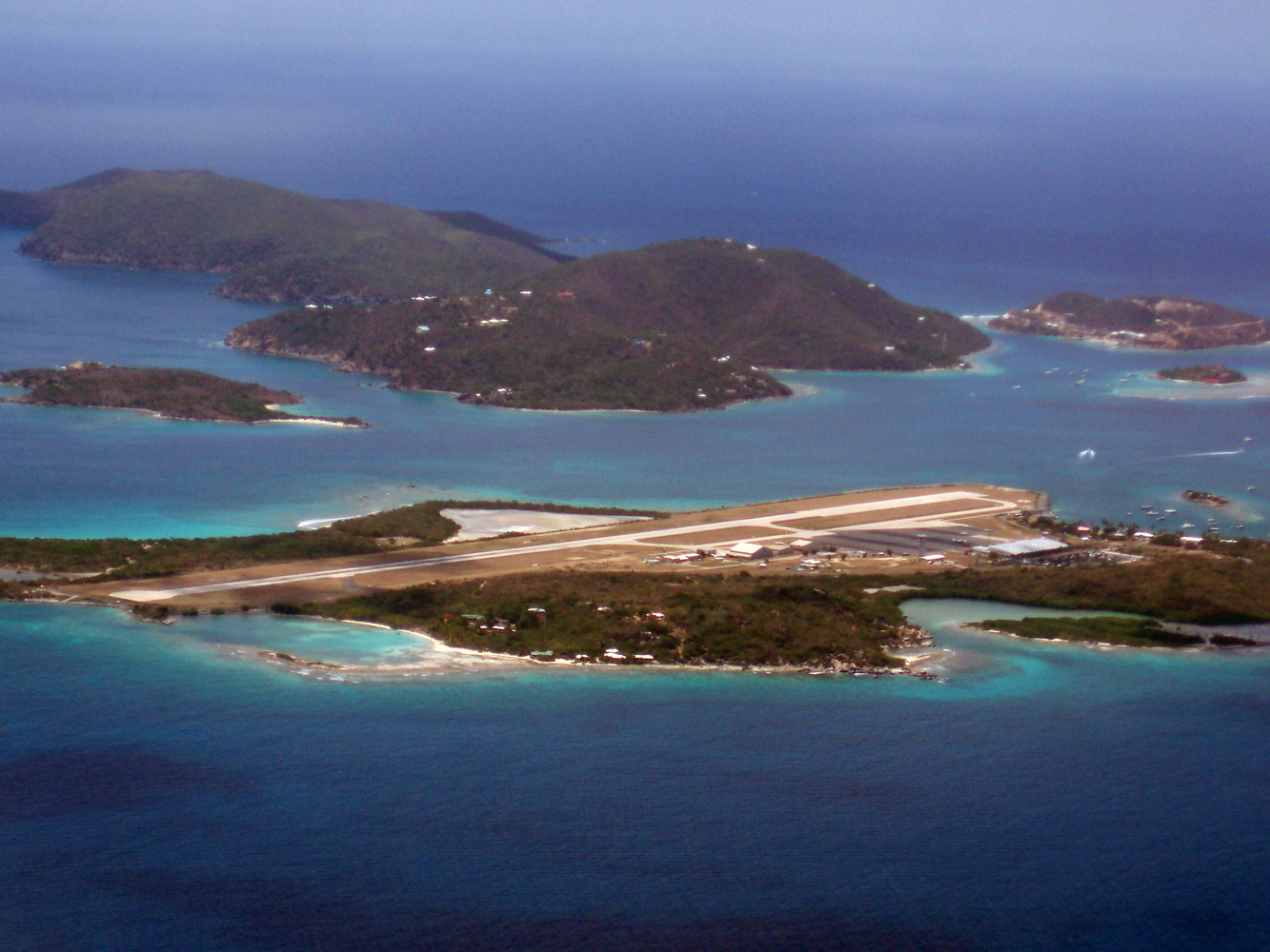 Tortola Airport from Above